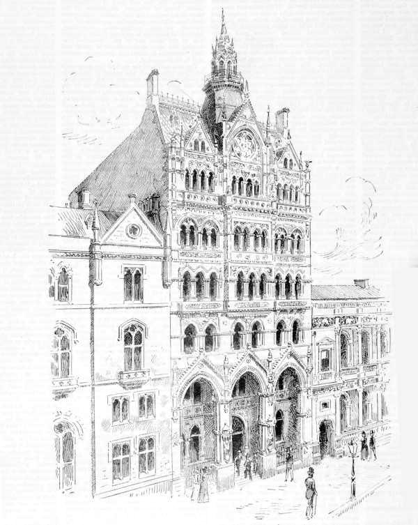 Stock Exchange. Collins Street, Melbourne. 1891